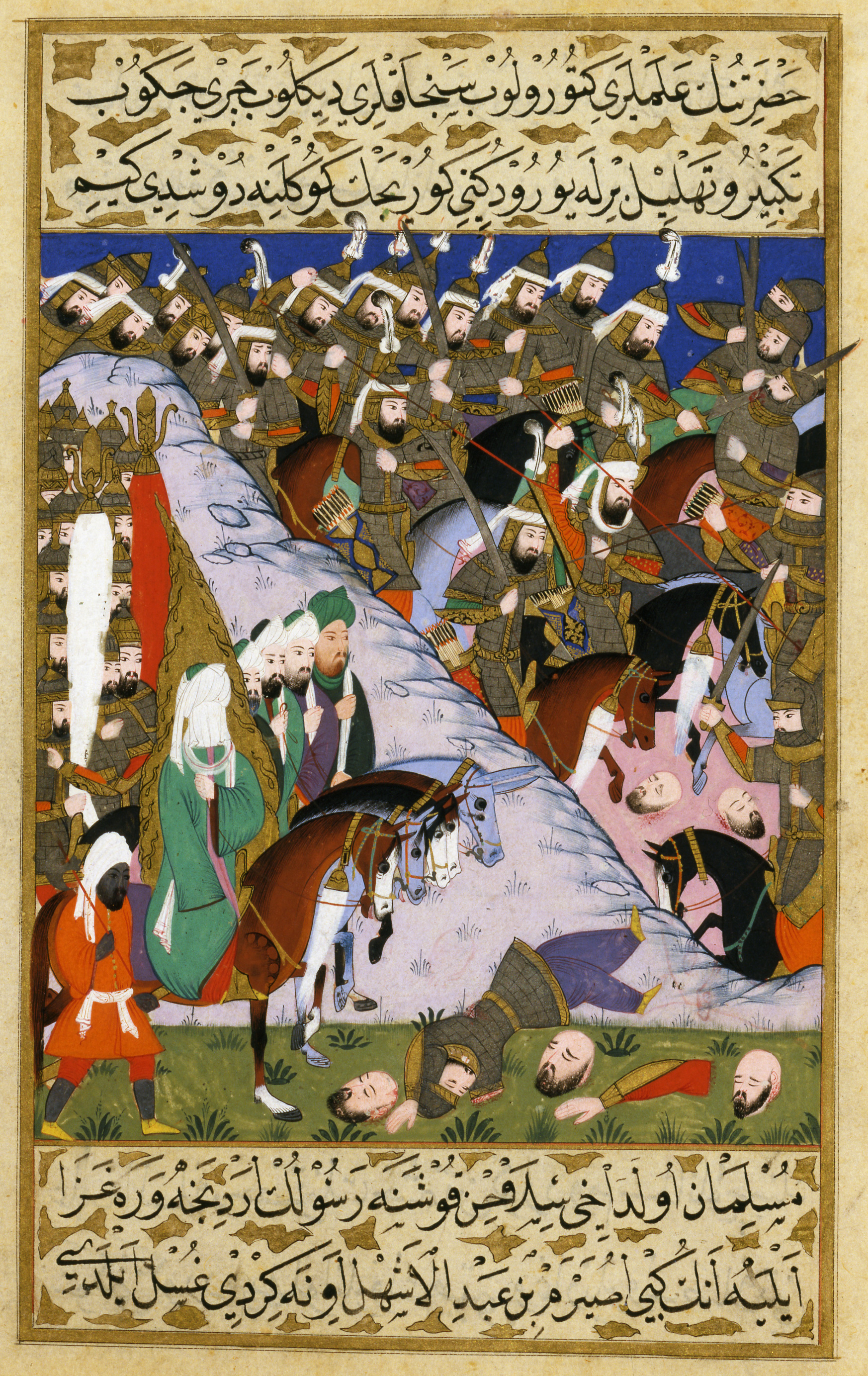 The Prophet Muhammad and the Muslim Army at the Battle of Uhud, from the Siyer-i Nebi, 1595